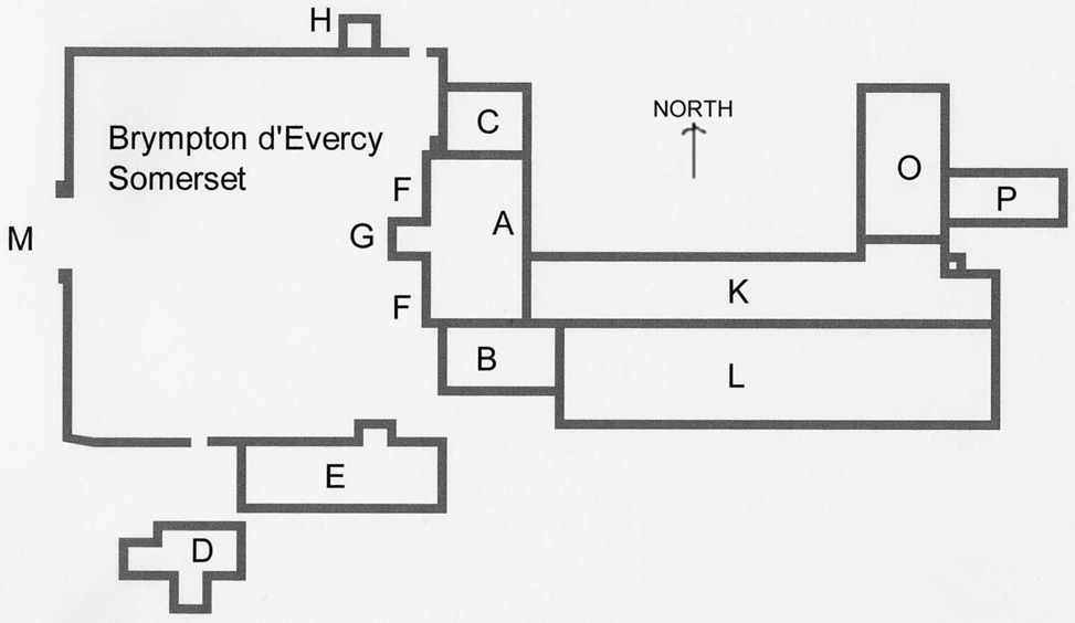 Plan not to scale showing building stages of Brympton d'Evercy, Somerset, England. Draw by uploader who releases into public domain. Key: A:Hall 1450; B:1460; C:Nether parlour 1520; D:Church 14th century; E:Priest House 15th century; F:West front:16th century; G:Porch 1722 H:Clock tower (original porch); K:Staircase hall possible site of earlier manor; L:State rooms 1680?; O:Kitchen 16th century; P:Farmhouse